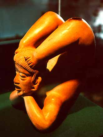 Sculpture Tlatilco culture Photograph courtesy of